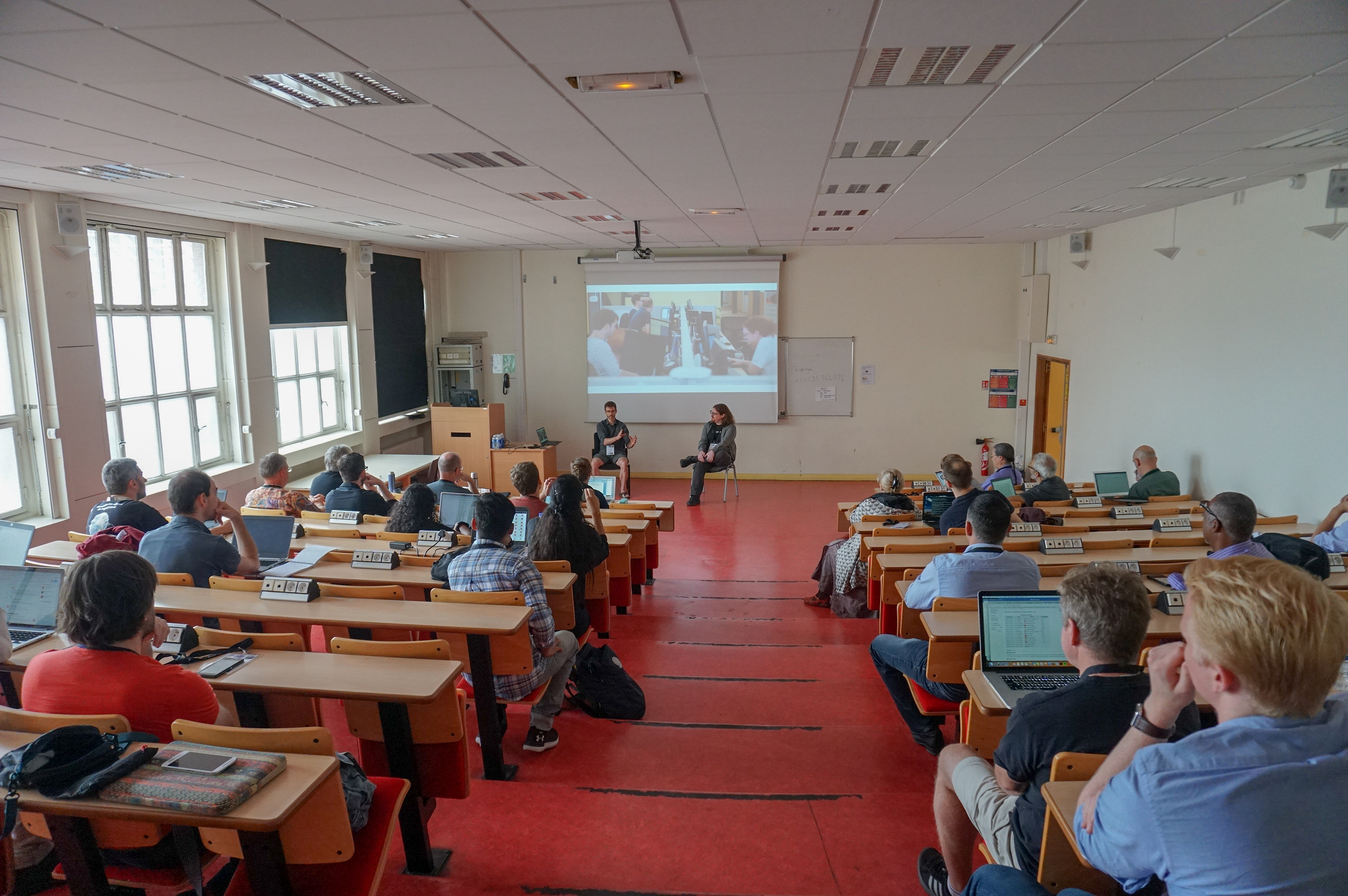 A discussion by Aaron Halfaker, principal research scientist at the WMF, & Stuart Geiger, Scholar at University Berkeley in OpenSym 2018